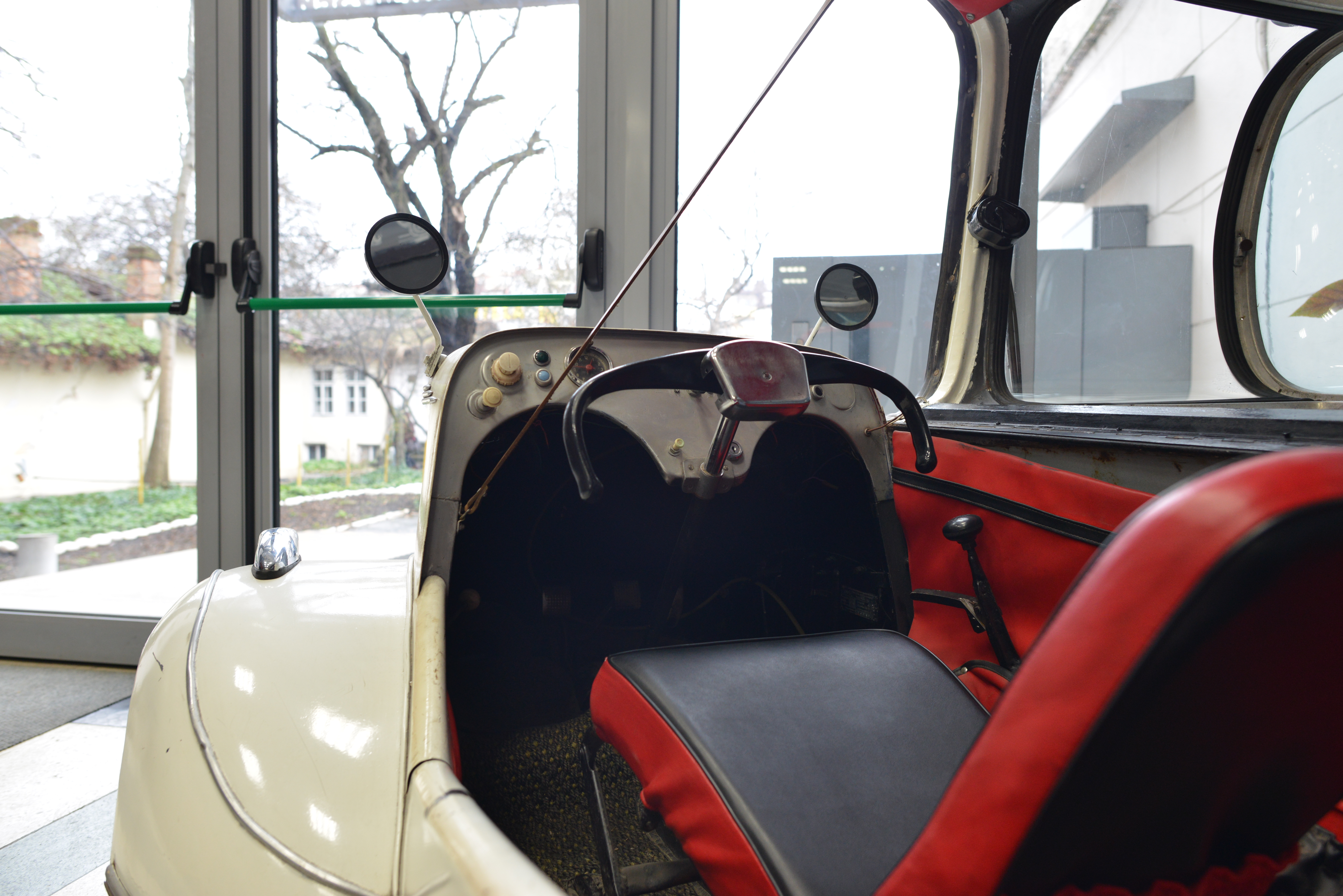 Messerschmitt KR 175. Germany, 1952. Exhibited at the National Polytechnic Museum, Sofia.